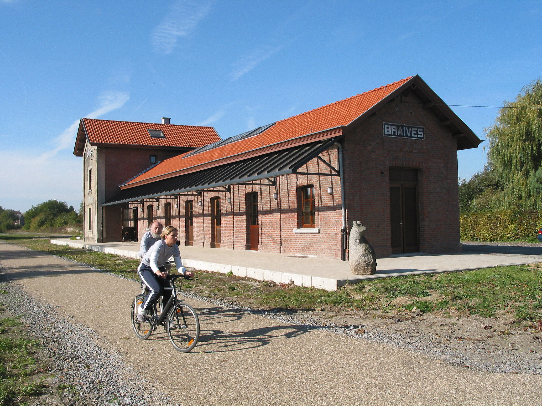 Braives (Belgium), the former station